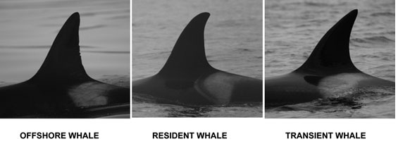 Three ecotypes of Orcinus orca in the Nort-East Pacific.